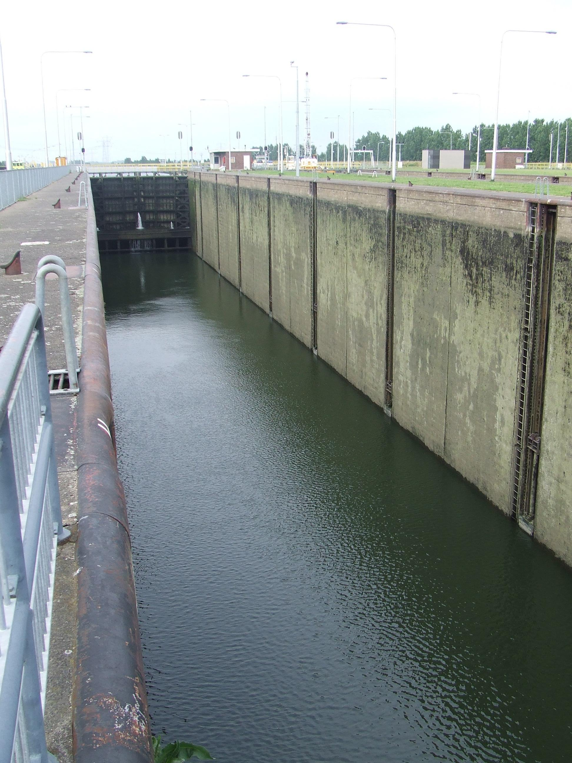 Sluizencomplex Maasbracht